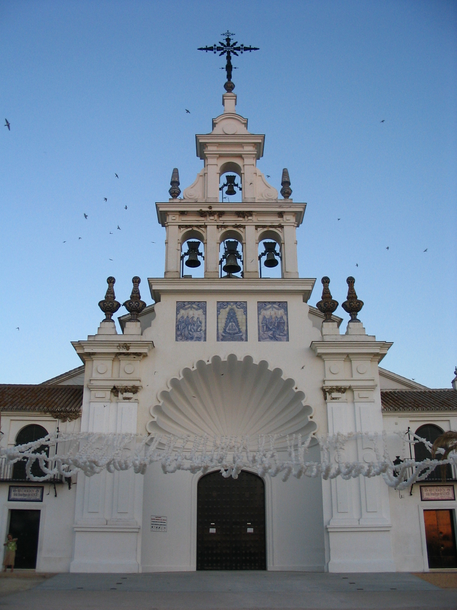 Chapel of Rocío, Huelva (Spain).